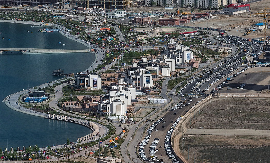 Aerial photographs of District 22 Tehran. see full gallery